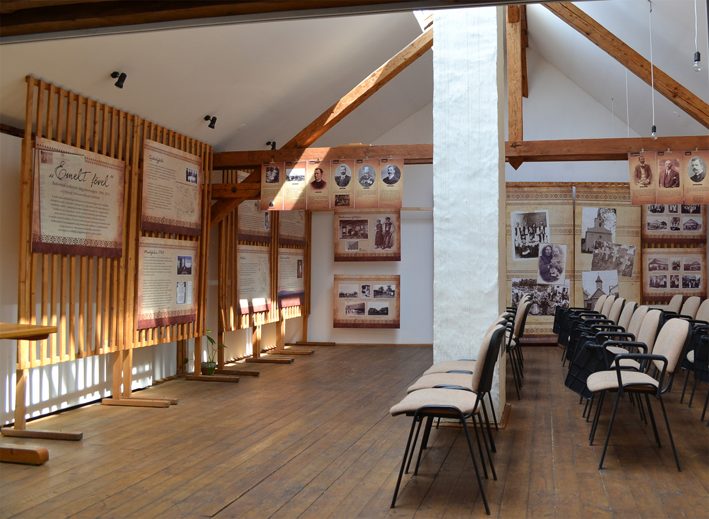 Kriza János Ethnographic Society - lecture and exhibition hall